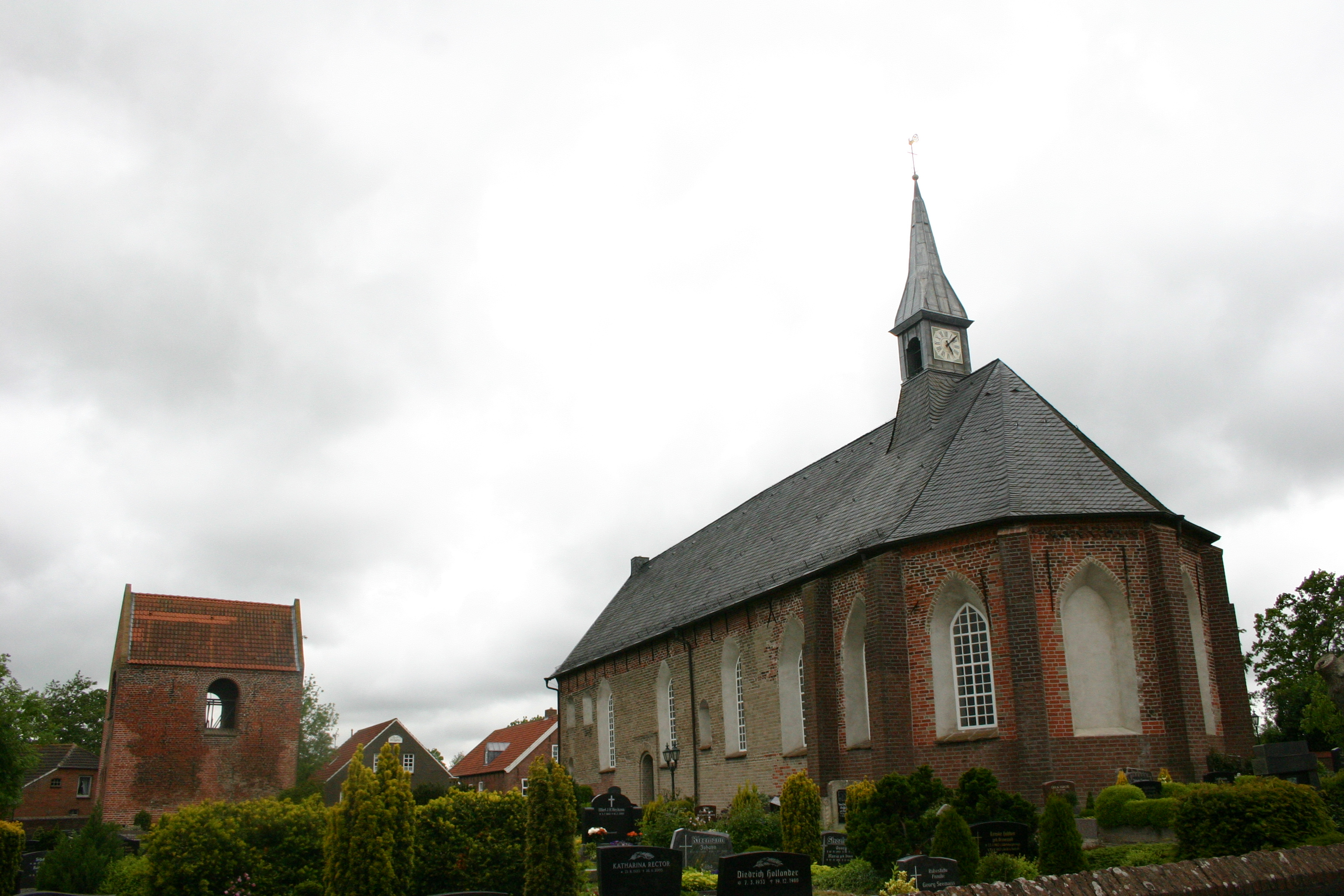 Historic St. Mary's Church in Nesse, district of Aurich, East Frisia, Germany